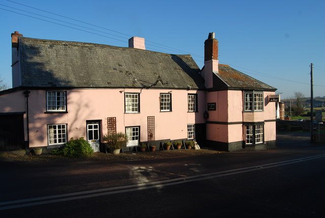 The Bridge Inn A truly unspoilt pub. No real bar just a serving hatch. Beer straight from the barrel, no pipes. Simple food. Unchanged interior. A true gem, listed in CAMRA's National Inventory of pubs.